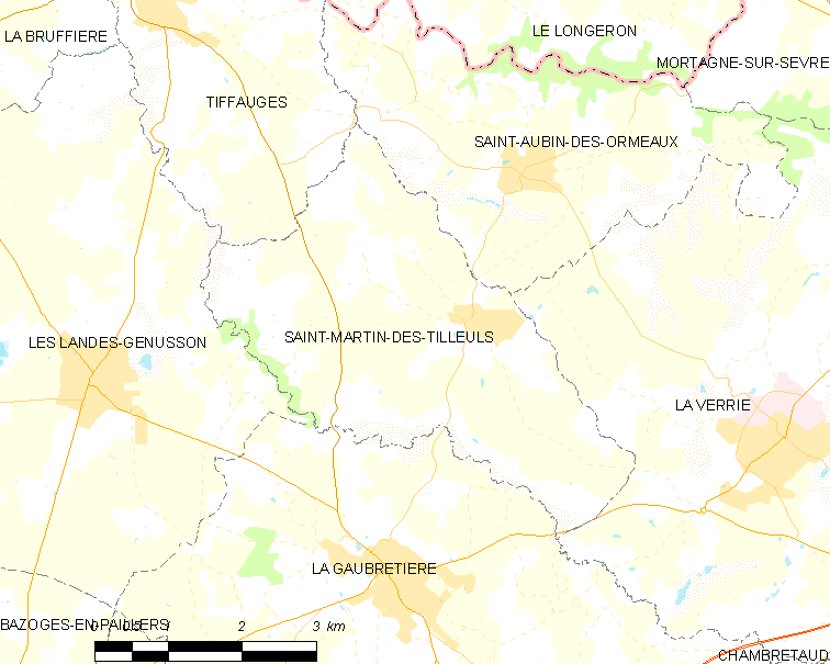 Map of French municipality Saint-Martin-des-Tilleuls